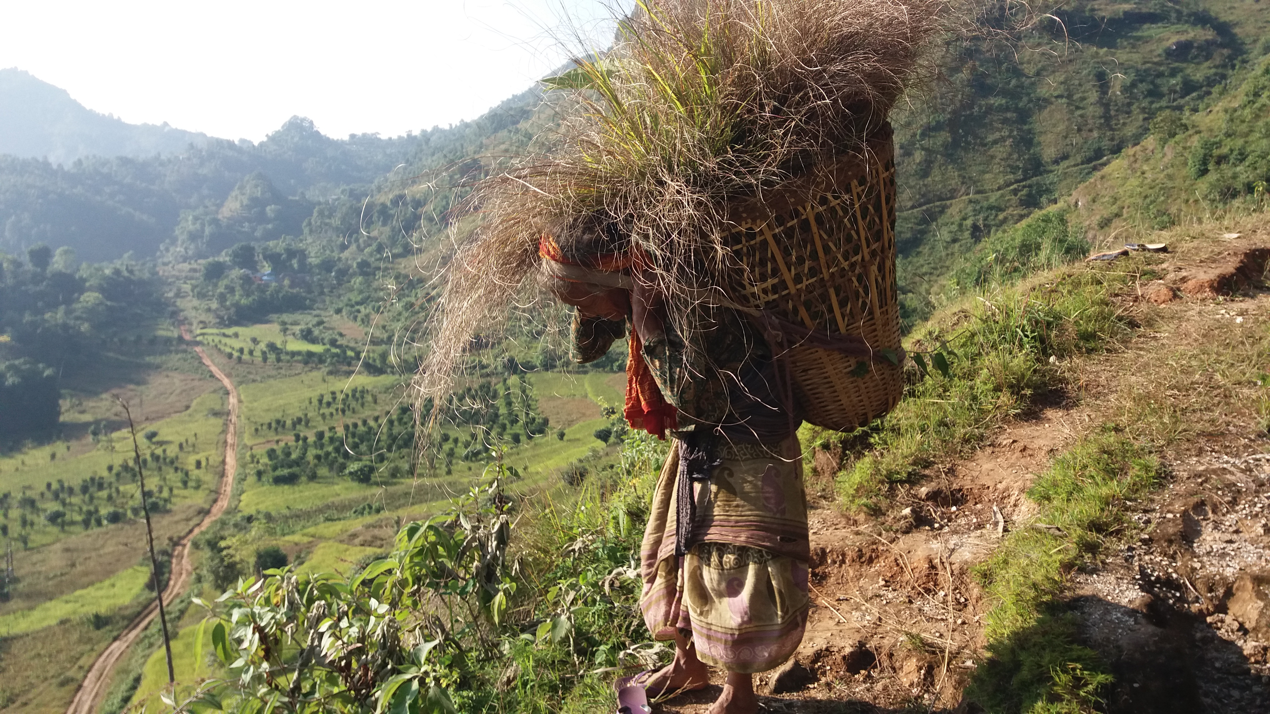 Nepali old peple